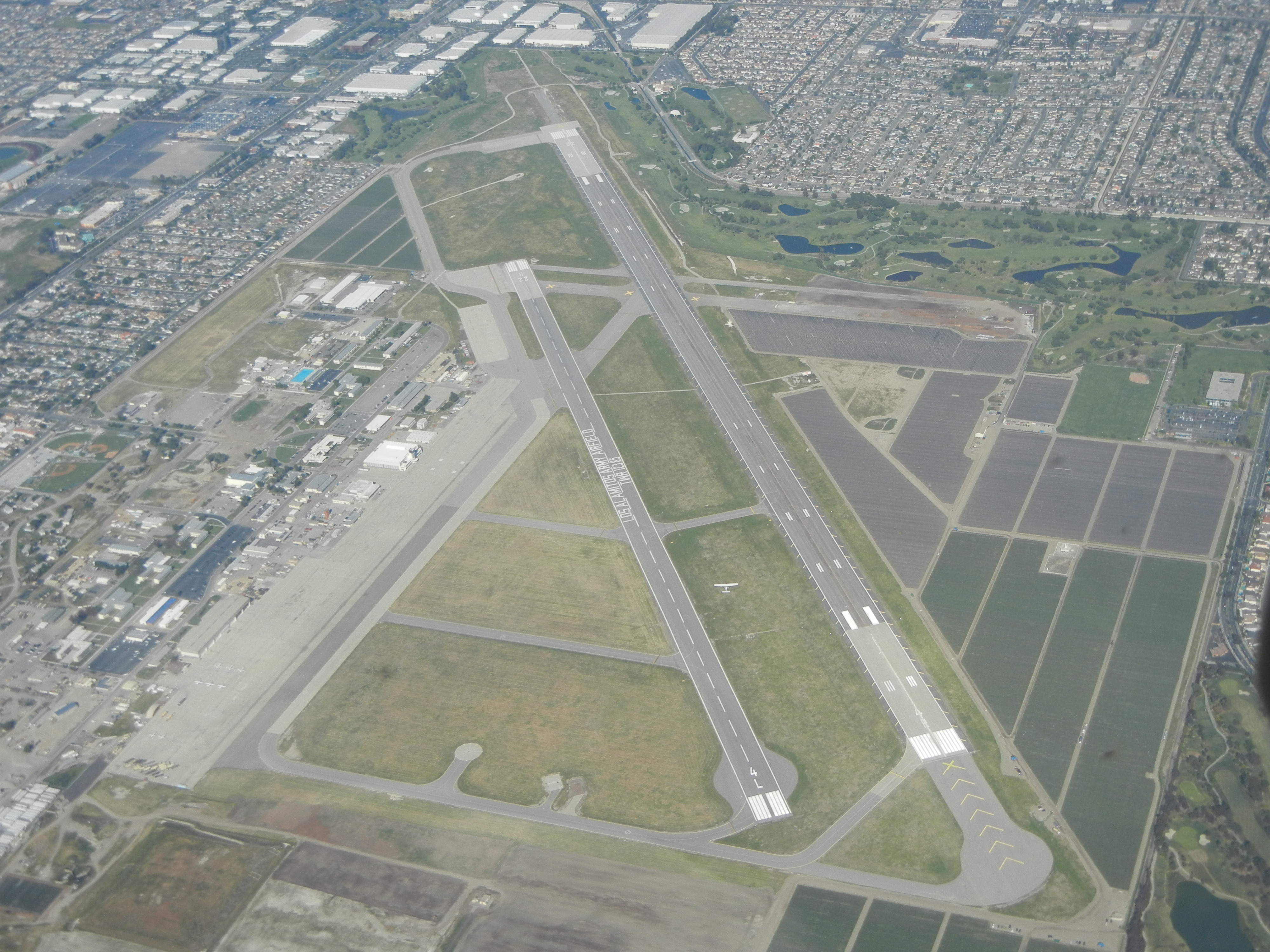 A bird's-eye view of Los Alamitos Army Airfield.